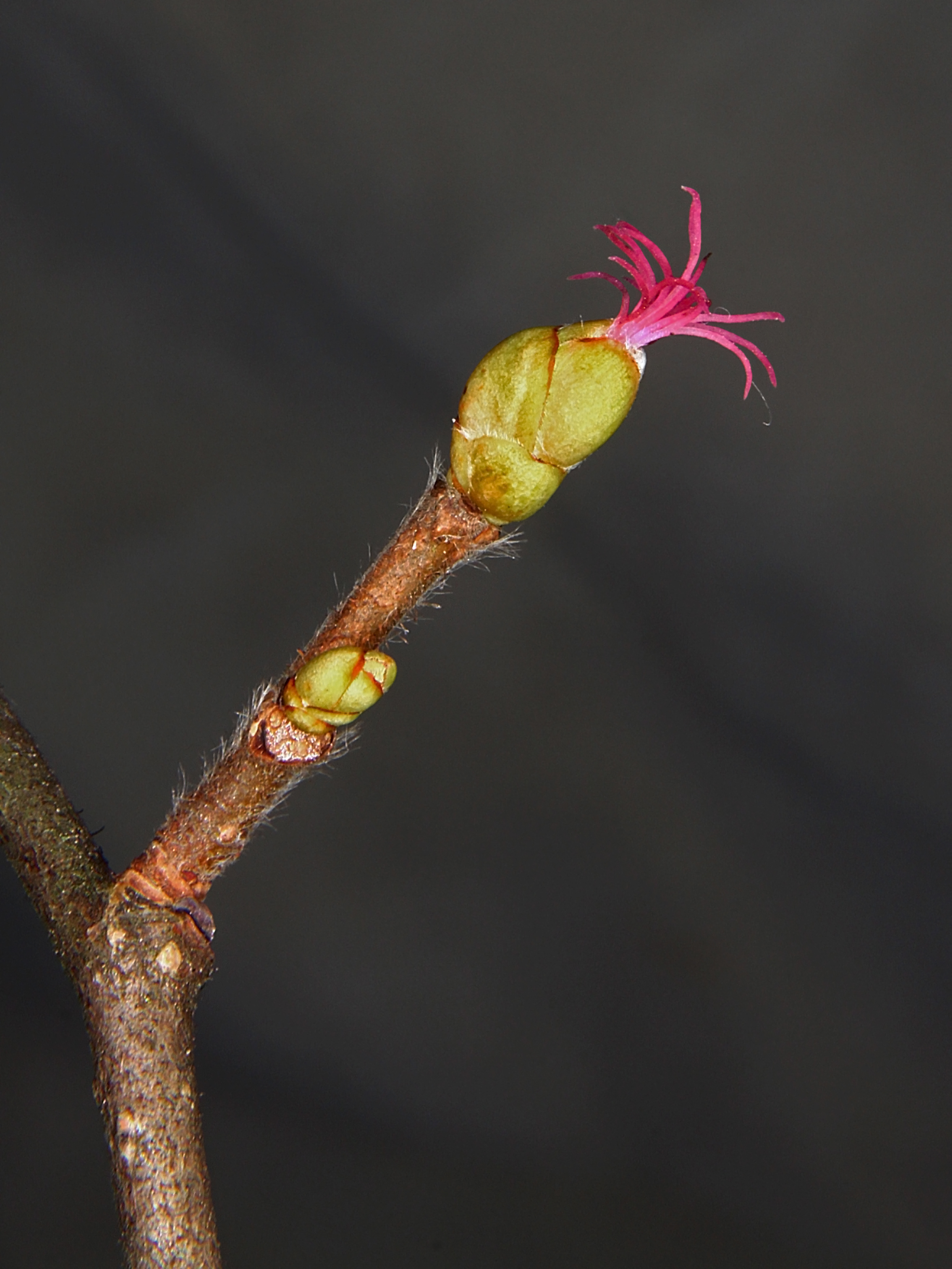 Corylus avellana, Betulaceae, Common Hazel, female flower; Karlsruhe, Germany.